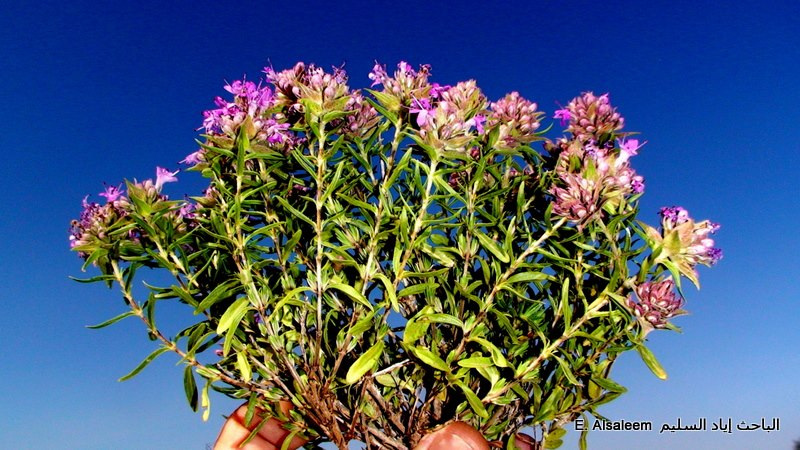 نباتات برّية سورية تؤكل